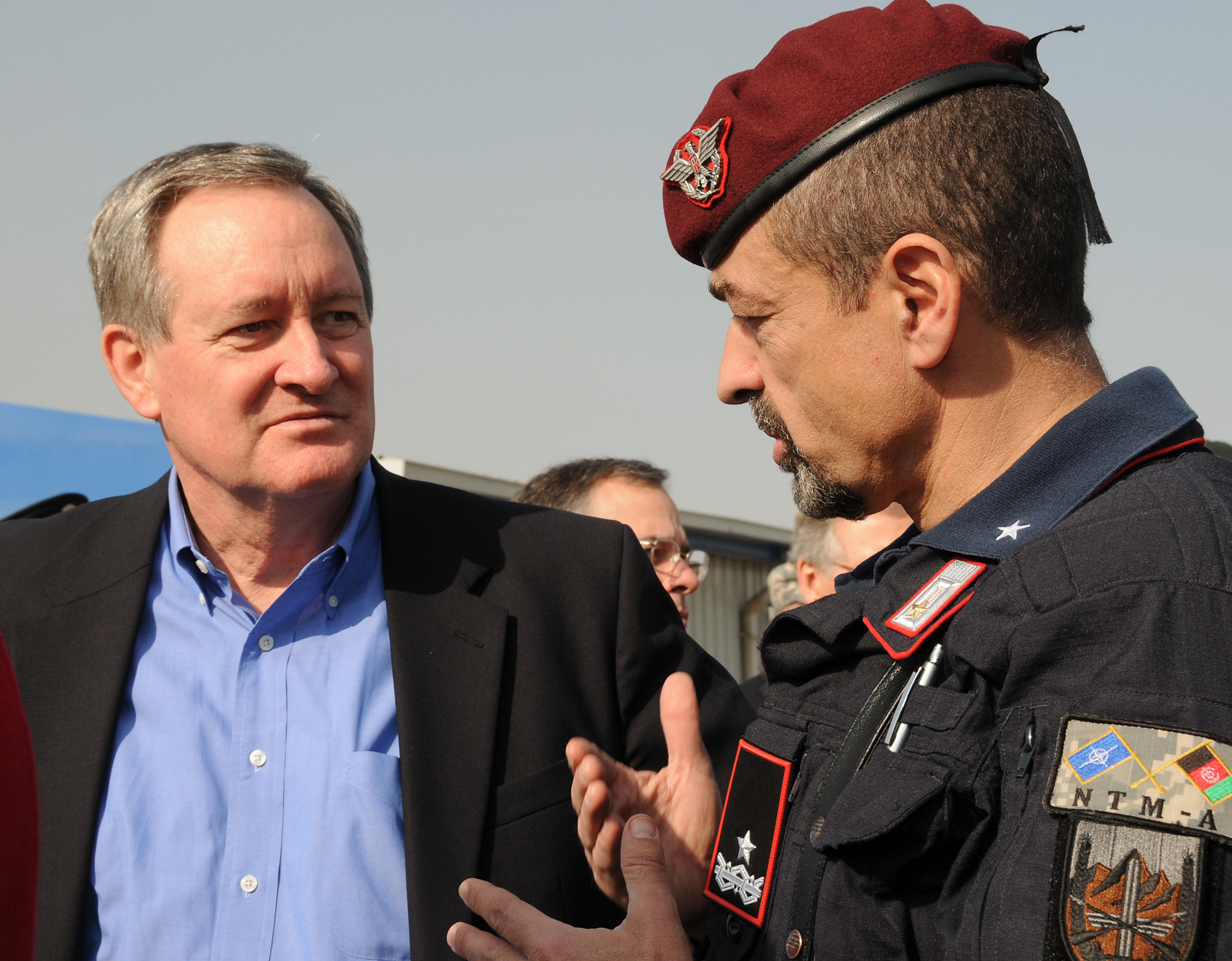 100109-N-9594C-024 – KABUL – U.S. Senator Mike Crapo, left, talks with Brig. Gen. Carmelo Burgio, commander Combined Training Advisory Group – Police, during a tour of the Central Training Facility (CTC), Kabul, on January 9, 2010. Sen. Crapo was joined by Sens. Roger F. Wicker, Mitch McConnell and Lisa Murkowski, and Rep. Michael Castle for a visit to CTC and other facilities in the area. The Congressional delegation received briefings from CTC, NATO Training Mission-Afghanistan (NTM-A), and International Security Assistance Force senior leadership and met with Afghan National Police officers while in the Kabul area. The mission of NTM-A is to train the Afghan National Security Forces and enhance the Government of the Islamic Republic of Afghanistan’s ability to achieve a stable and secure country (U.S. Navy photo by Chief Mass Communication Specialist F. Julian Carroll)